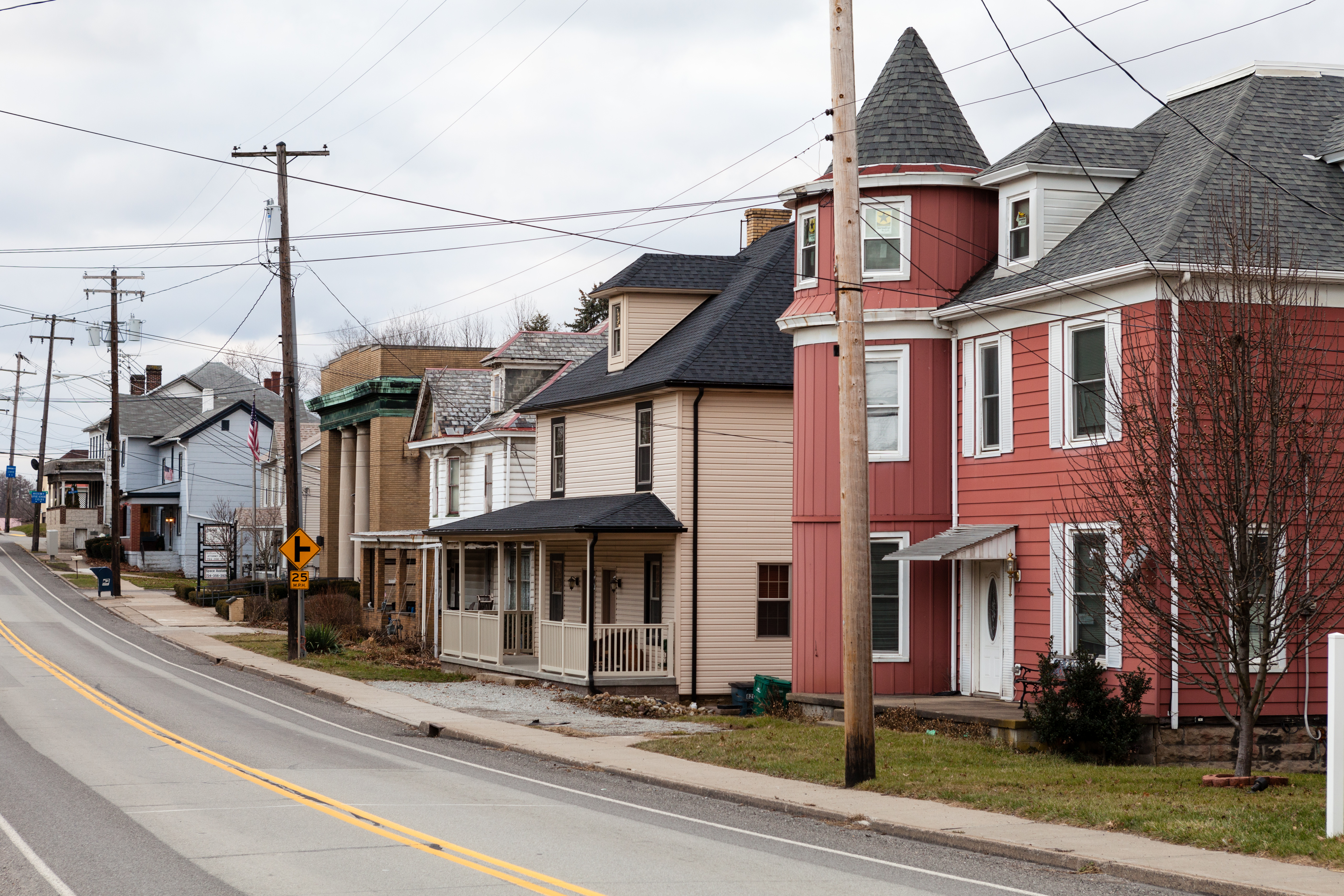 Looking west near 78 Main Street in Hickory, Pennsylvania, part of Mount Pleasant Township, Washington County, Pennsylvania.